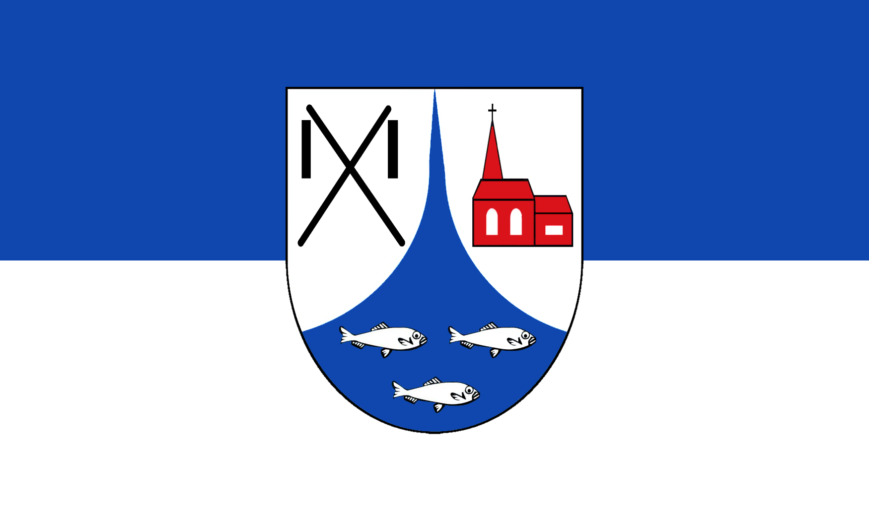 flag of the German municipality of Hohen Sprenz, granted 19 June 2009